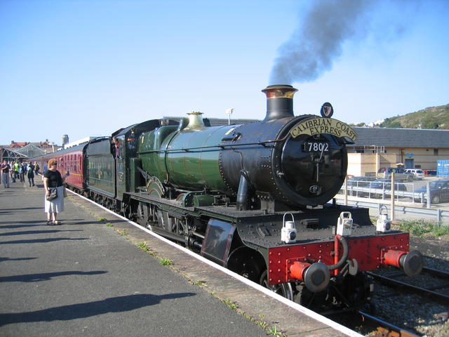 Ex-GWR 7802 Bradley Manor sits waiting to depart from Aberystwyth with the Cambrian Coast Express. This was once a routine daily scene, with the train sometimes even hauled by this particular locomotive. The only real give away as to the date of the picture is the redevelopment to the right of the engine and the modern central headlamp.